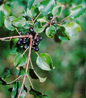 Fruit and leaves of Rhamnus catharticus